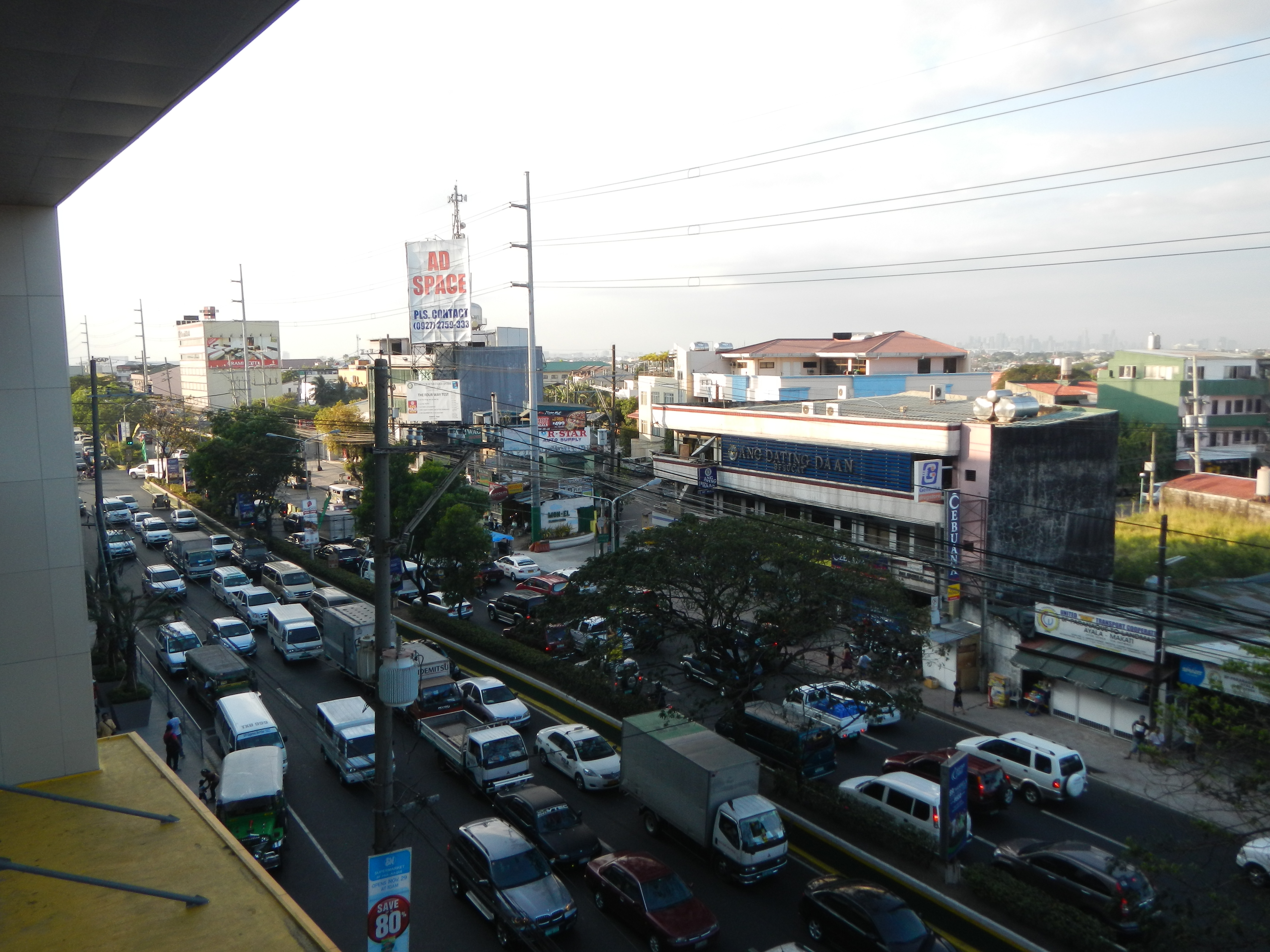 Medical Center Paranaque in front of the SM City Sucat in [Dr. Santos Avenue corner [Circumferential Road 5 Carlos P. Garcia Avenue Extension (C-5 Road), Brgy. San Dionisio, [Parañaque City, Metro Manila, Philippines.